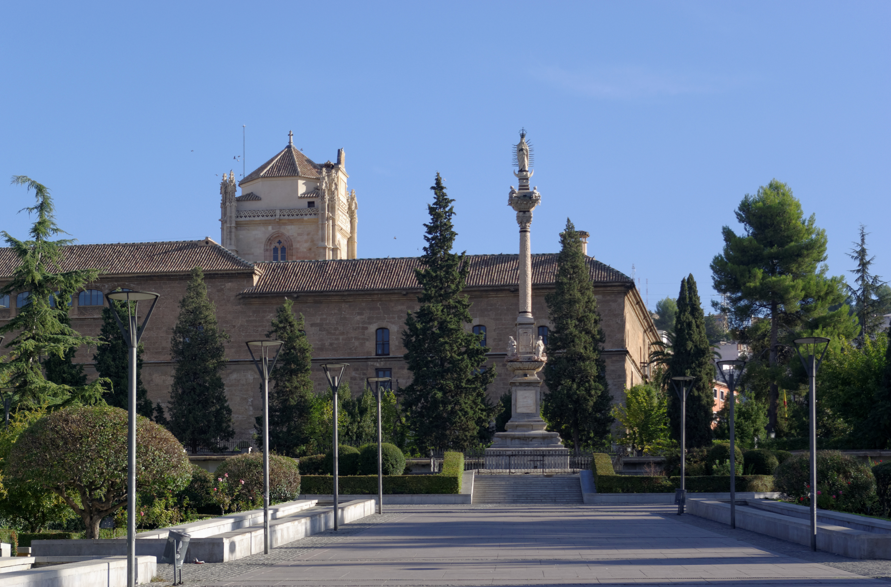 Spain, Granada, Virgen del Triunfo